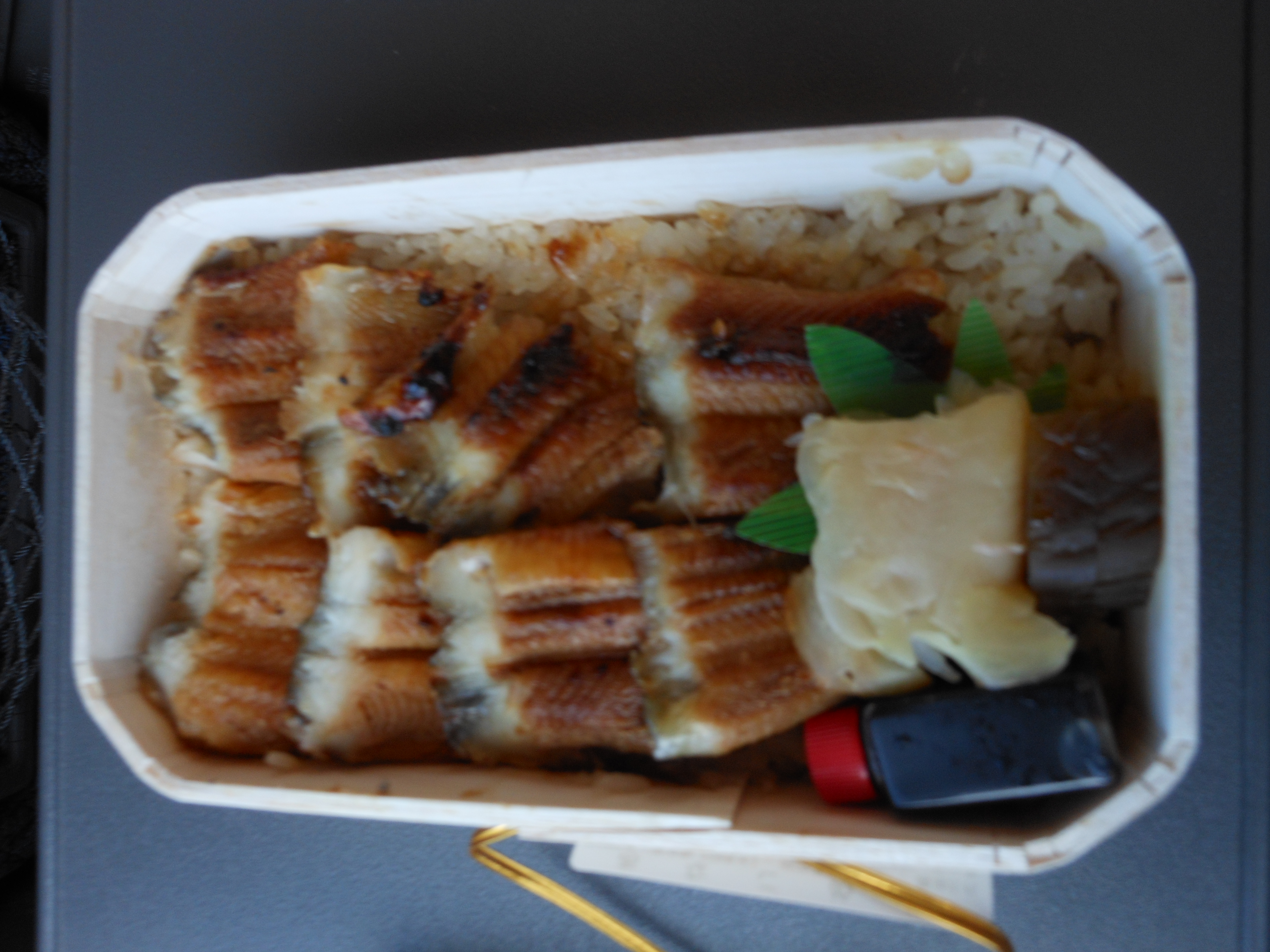 This is a Katsu Anago Meshi or Rice with Fresh Conger cooked by Hiroshima Ekibento Co., Ltd.